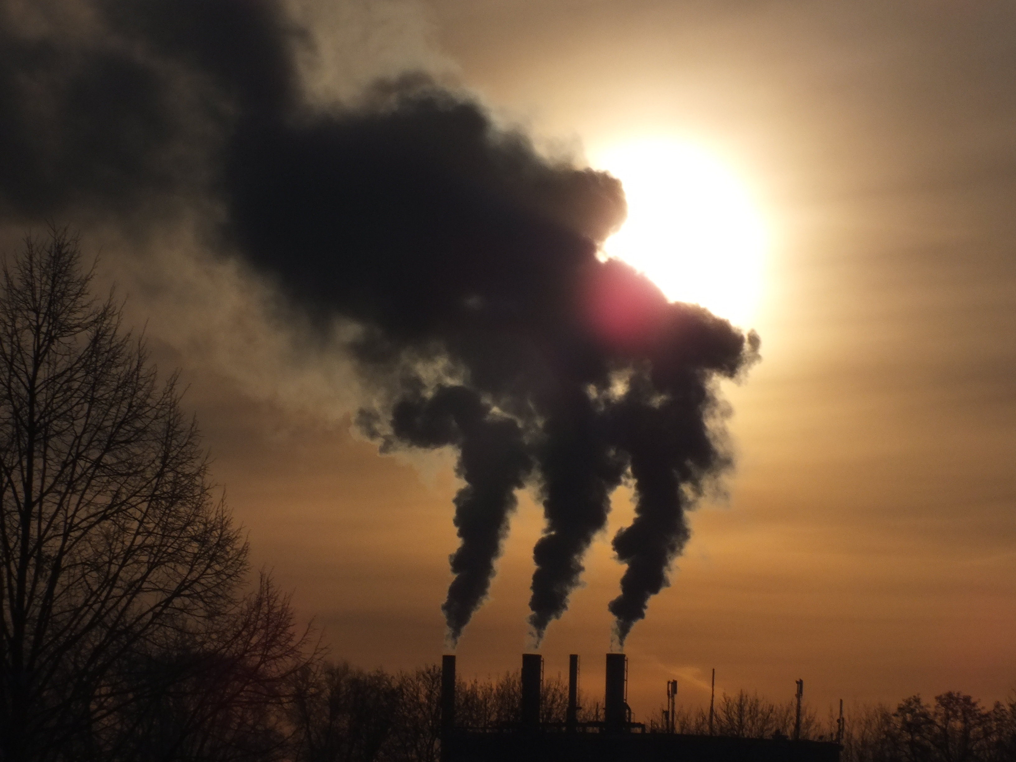 smoking heating plant on a winter morning